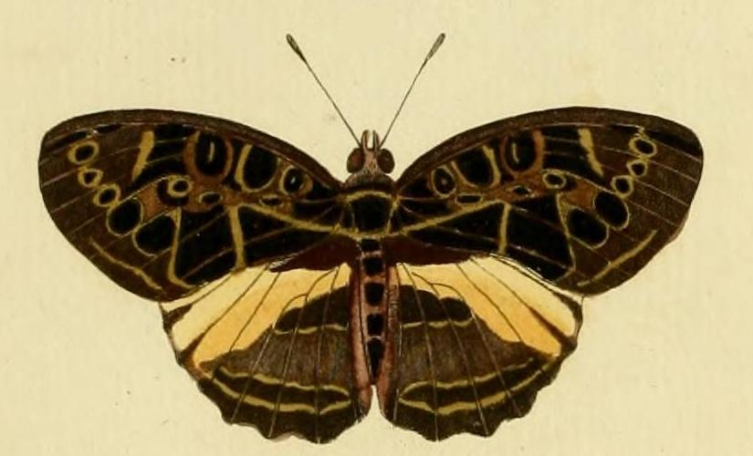 Plate CXXXVIII C, D: "(Papilio) Crithea" ( = Catuna crithea), see Funet